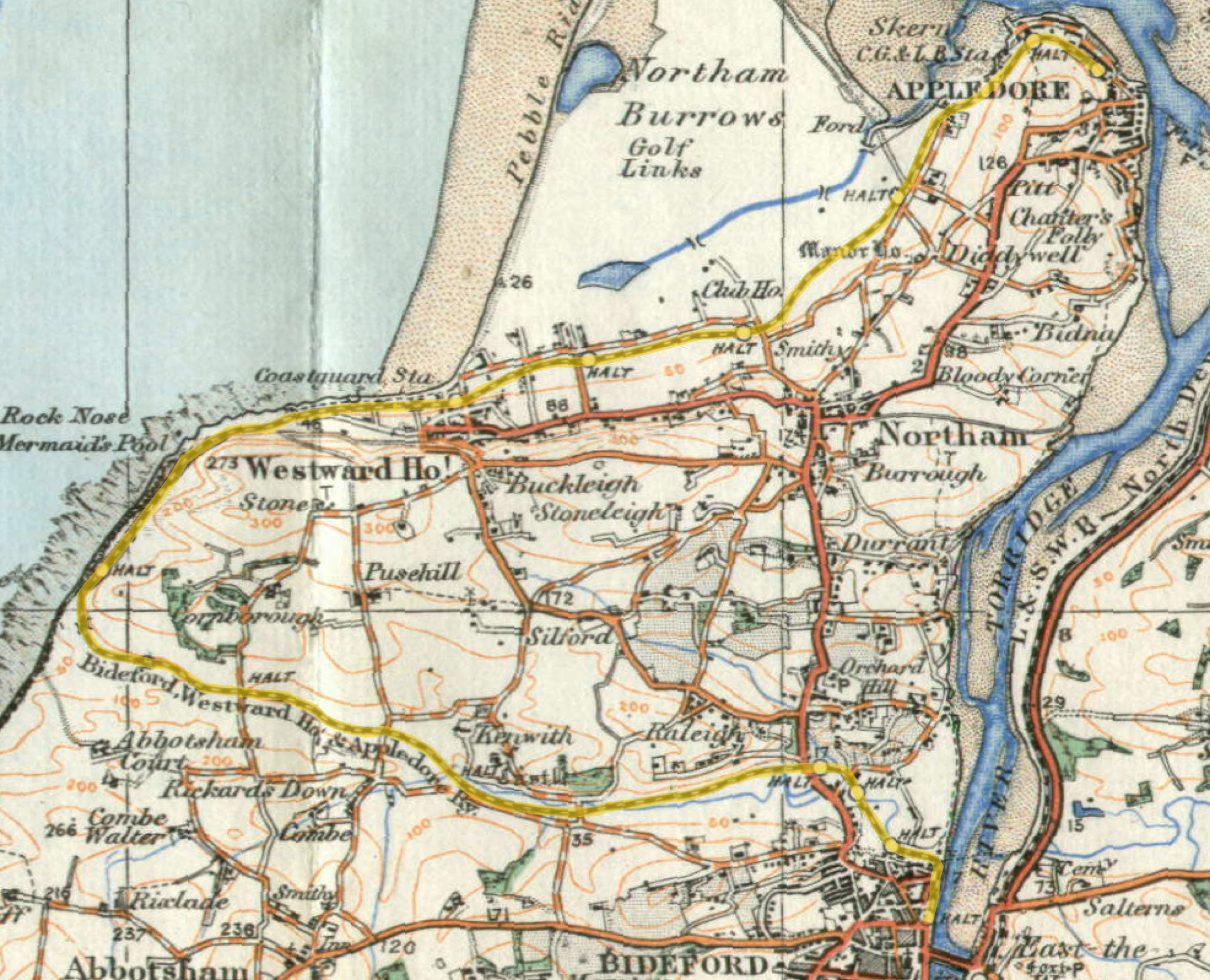 Detail from Ordnance Survey "New Popular Edition" Sheet 118. Colour highlighting by uploader.